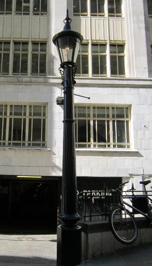 The only remaining sewer gas destruction lamp left in London. In a side street of the Savoy Hotel